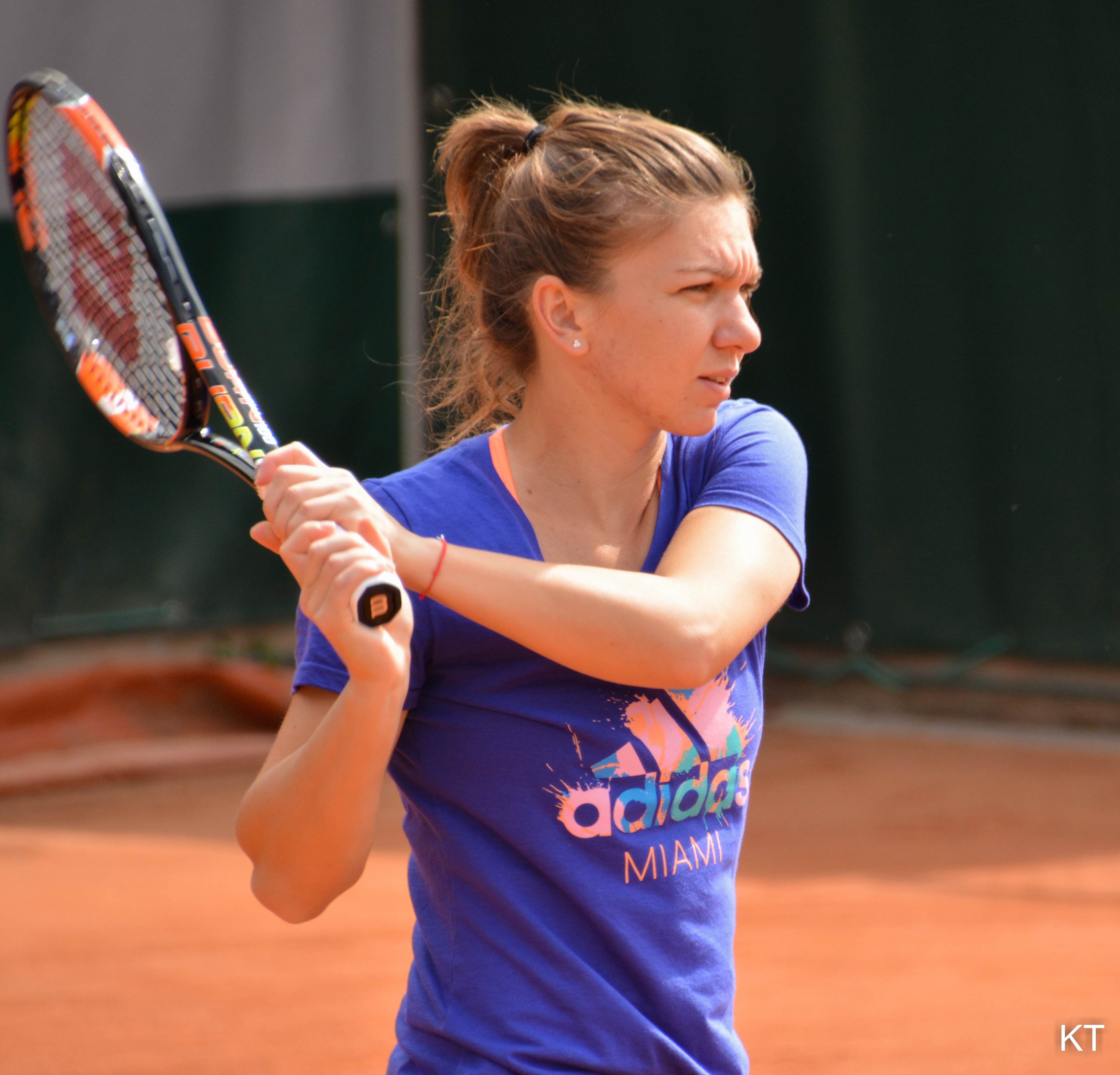 On the practice court. Day 4 of Roland Garros 2015.